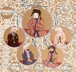 Mohammed (top, veiled) and the first four Caliphs. From the Subhat al-Akhbar. Original in the Austrian National Library (Österreichische Nationalbibliothek) in Vienna.